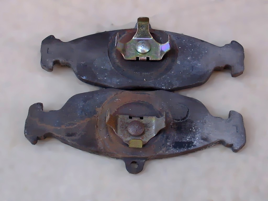 brake pads, anchored to the brake caliper using an external guide and anchored to the caliper piston by spring, in the picture is not present contralateral to the brake pad, which is devoid of the spring anchor